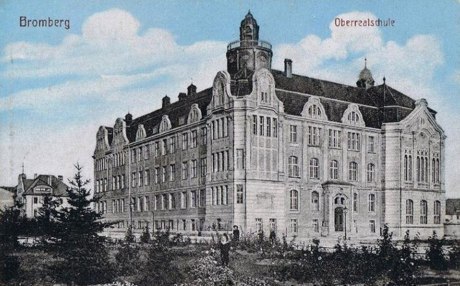 Postcard 1910